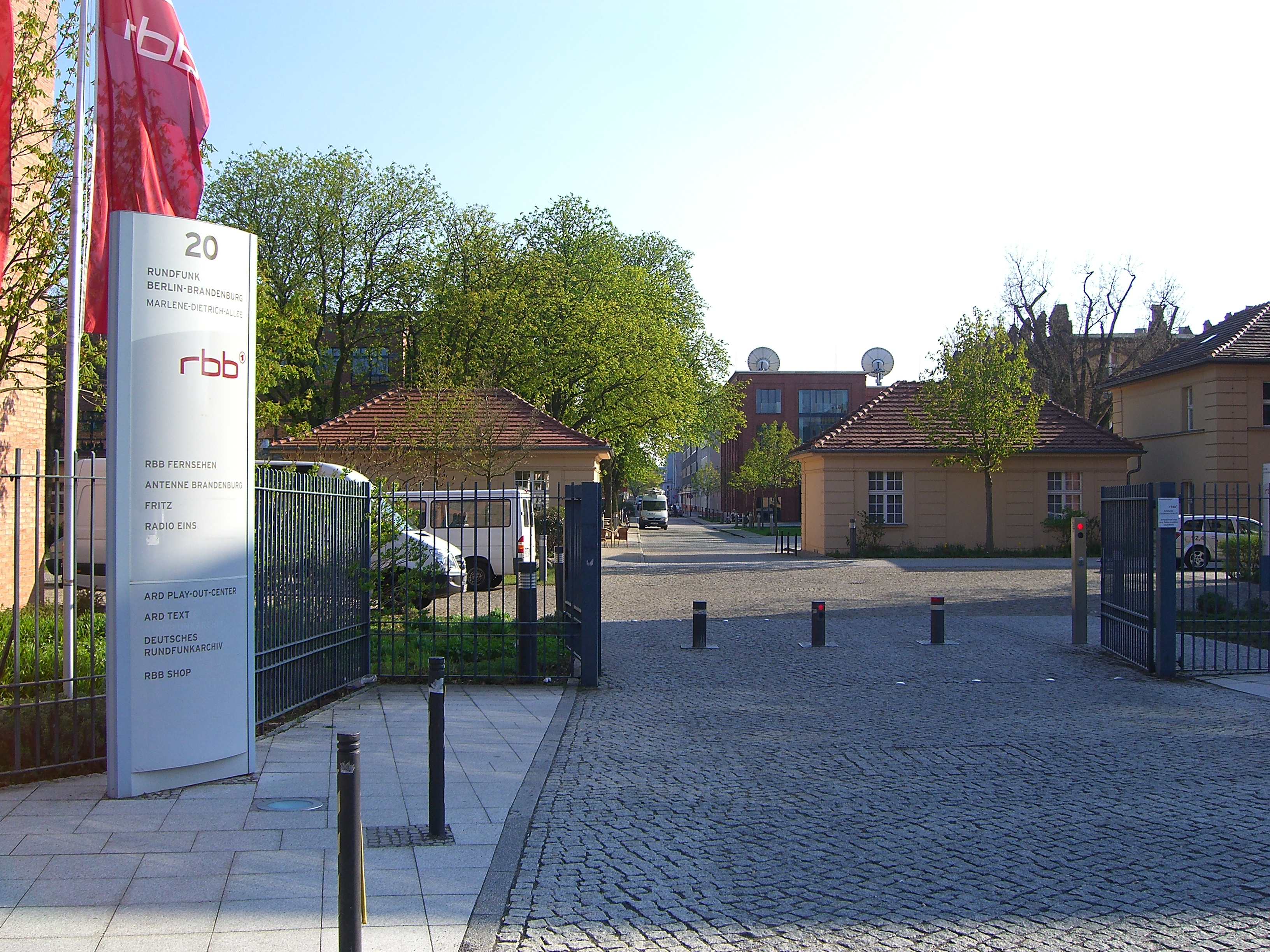 TV center of "Rundfunk Berlin-Brandenburg" (rbb) in Potsdam-Babelsberg.